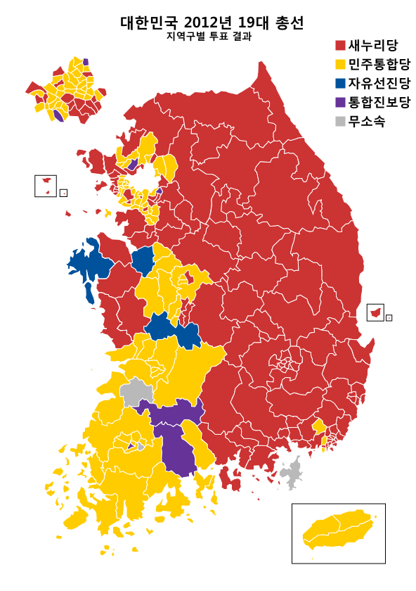 Color update